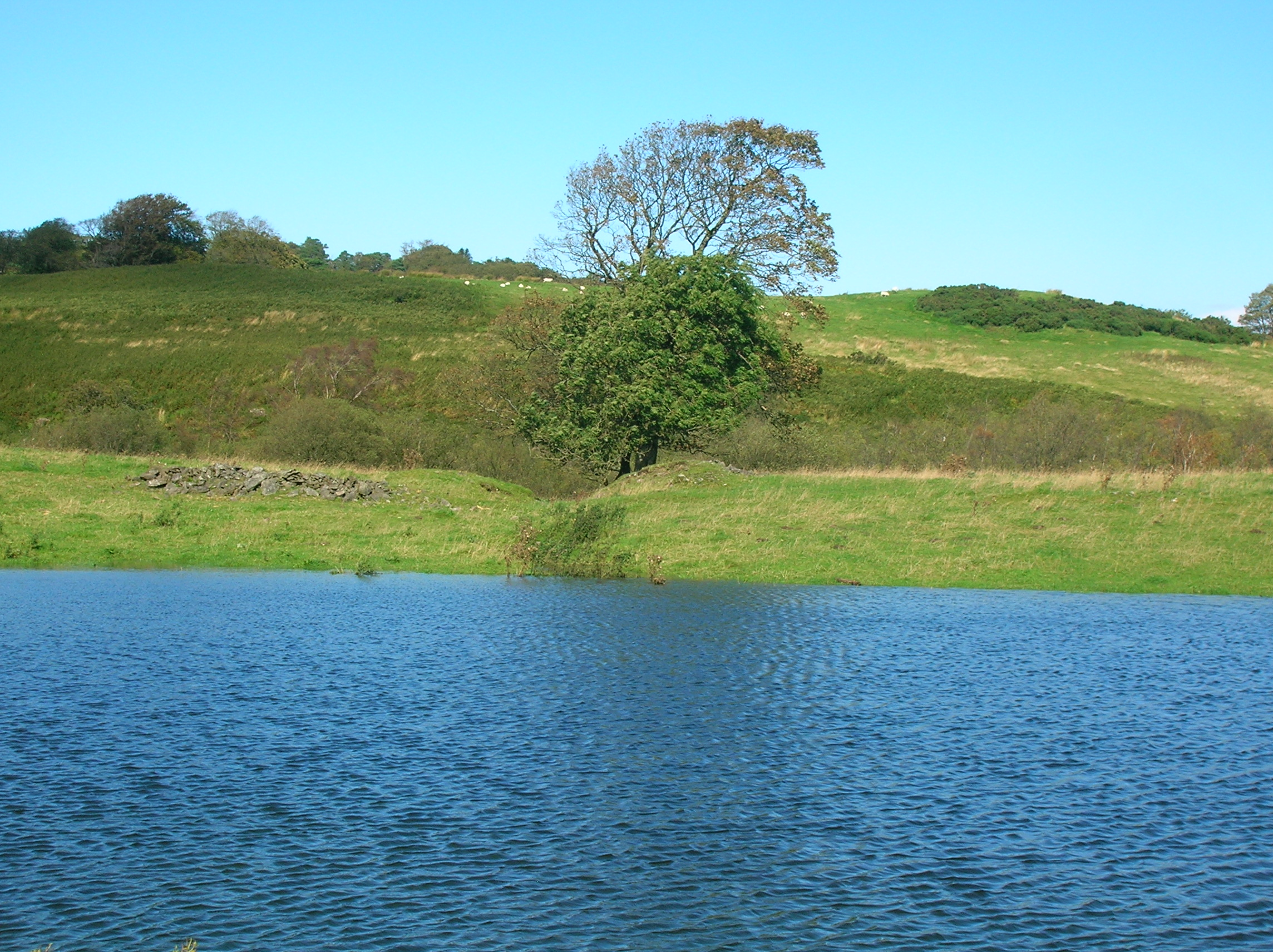 The seasonal lochan at Lochlands and the drainage ditch, Beith, North Ayrshire, Scotland